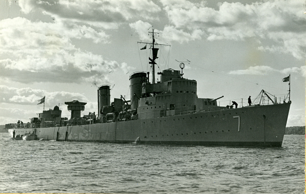 The Swedish destroyer HMS Malmö.